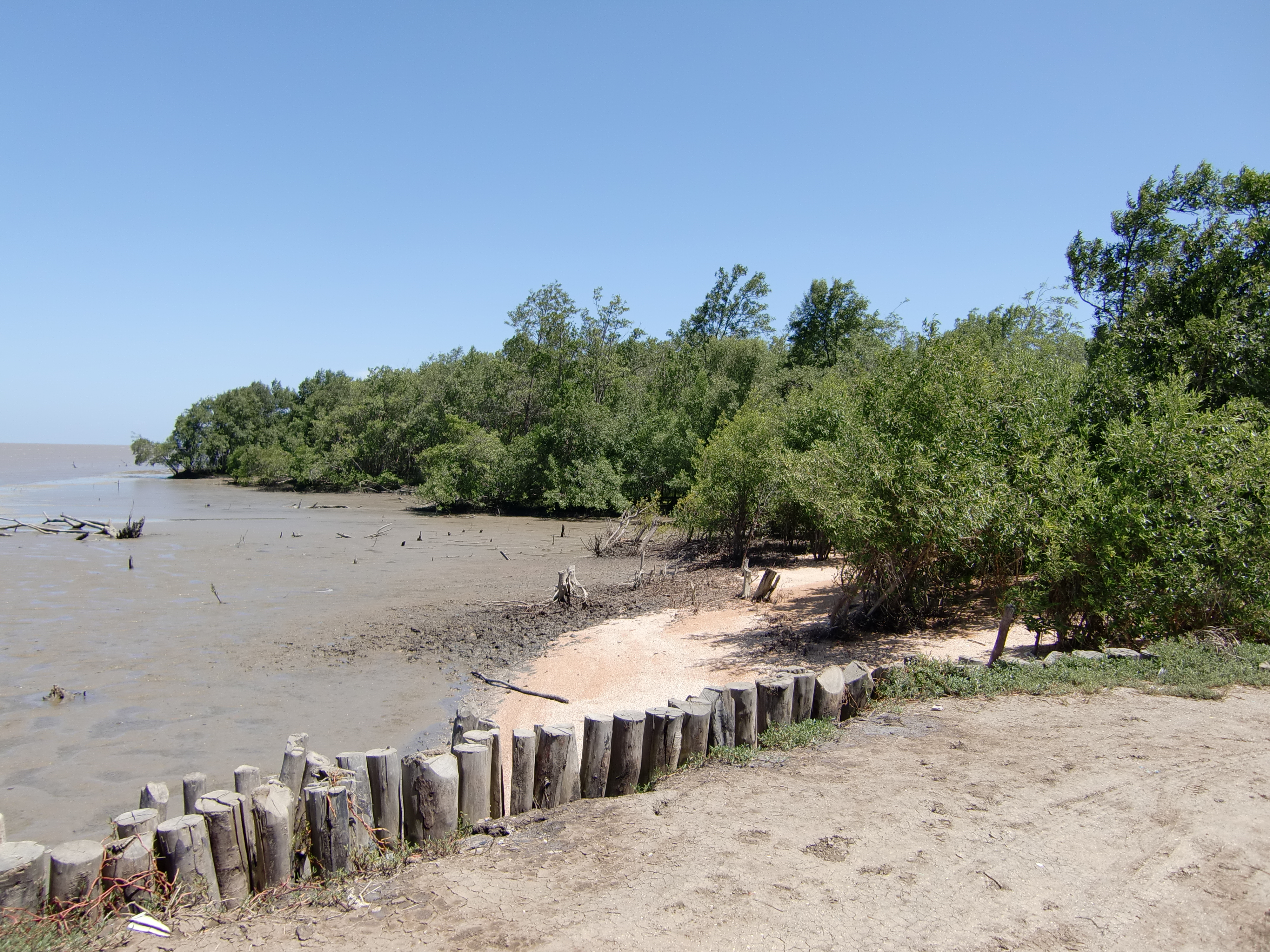 overview ocean